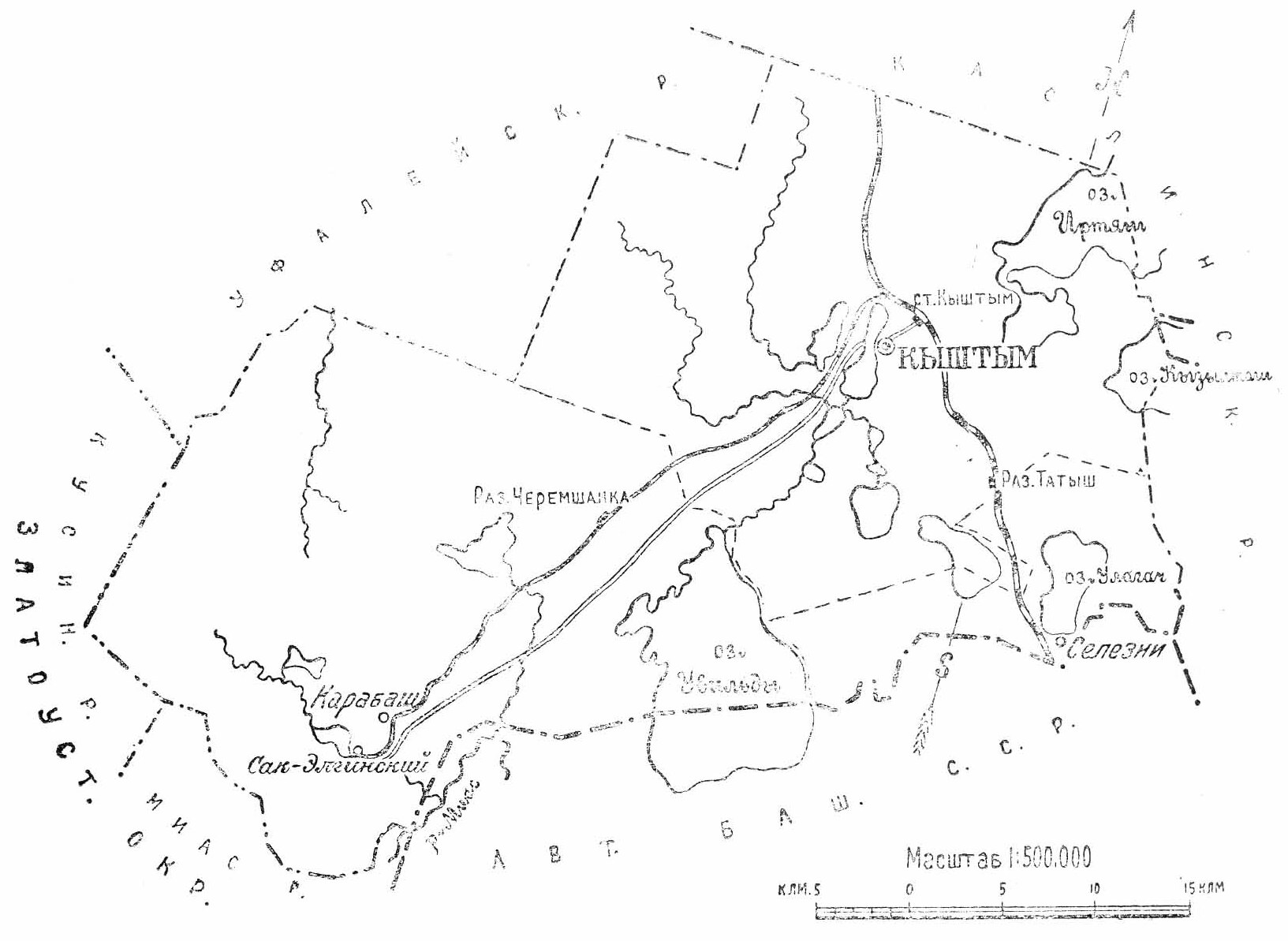 Map of Kyshtymskiy rayon (Sverdlovskiy okrug of Uralic Region of RSFSR) in 1928.